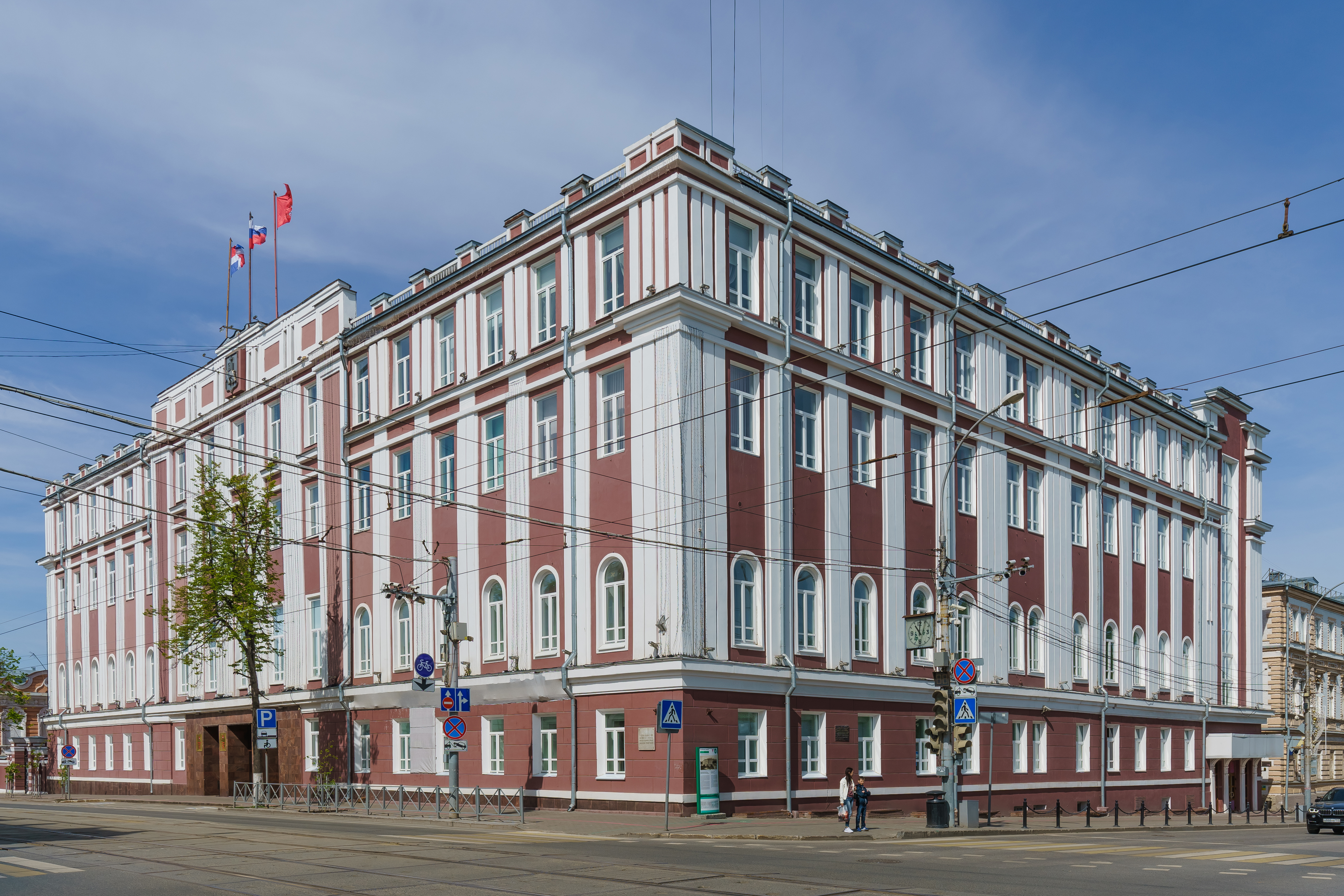 Building at Lenina Street 23 (city administration) in Perm, Russia